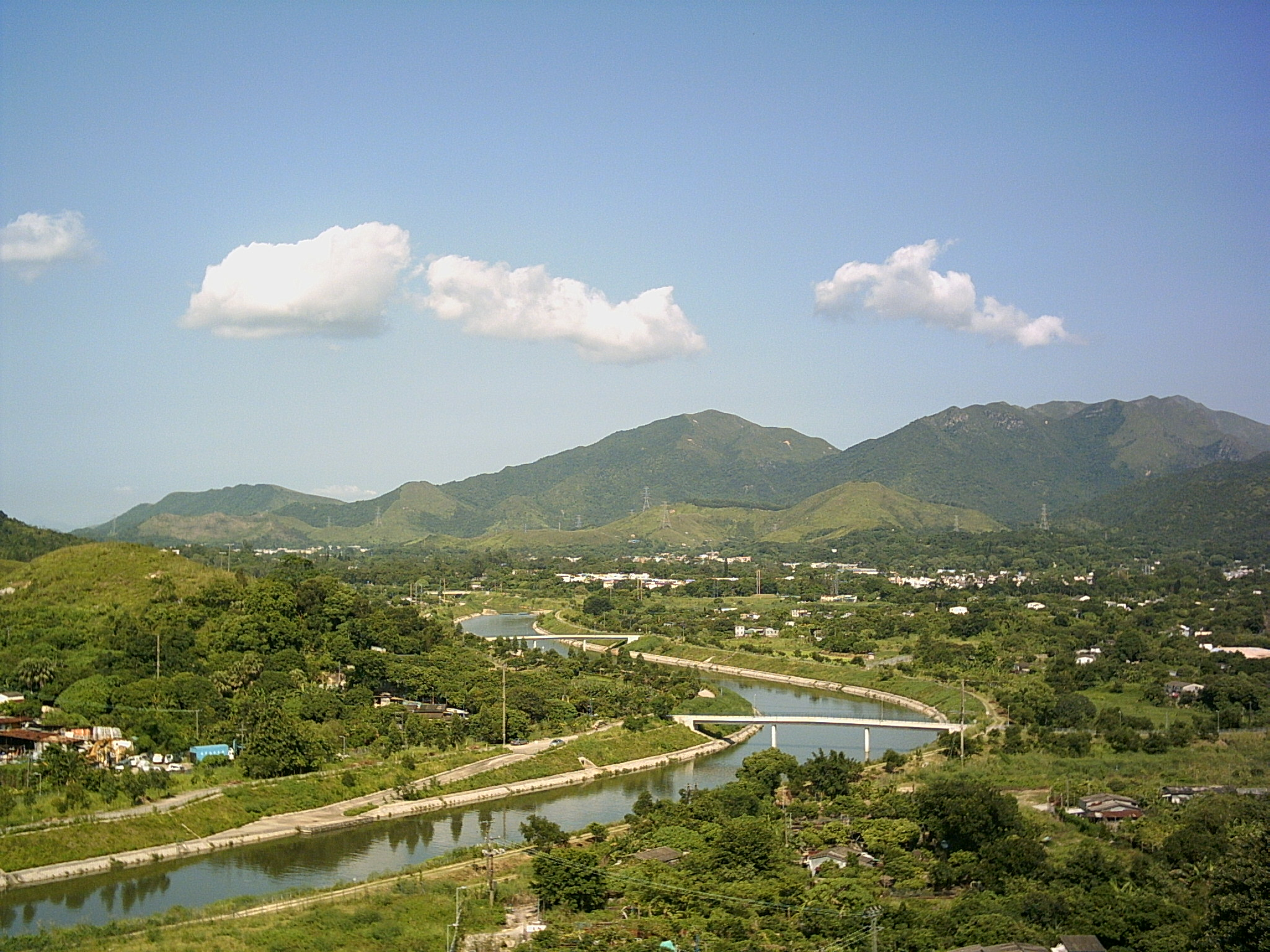 Ng Tung River and some Cumulus clouds. Taken by myself in August, 2006.